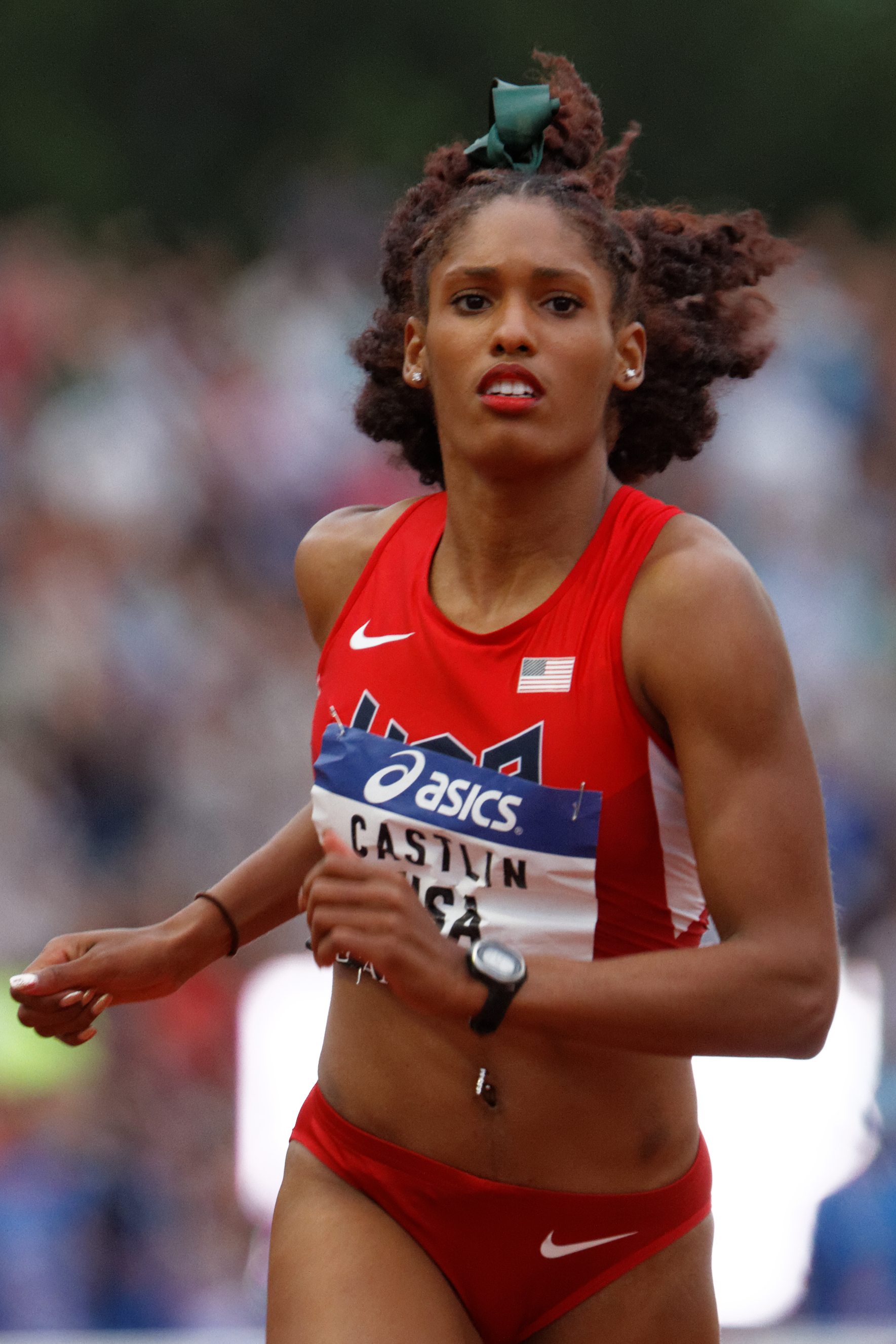 DécaNation 2014. 100m hurdles.